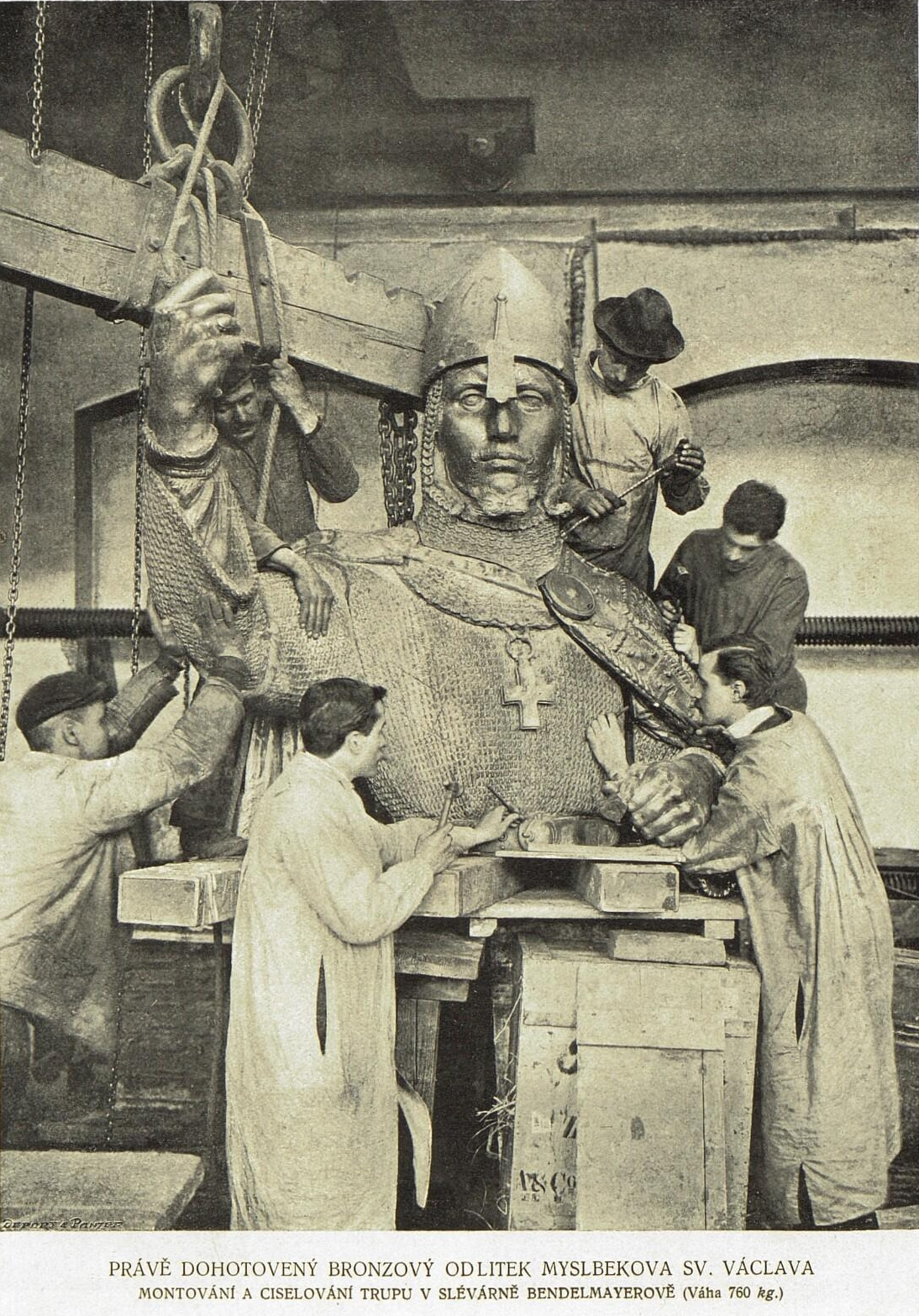 finalizing the St. Wenceslas monument, Prague 1905